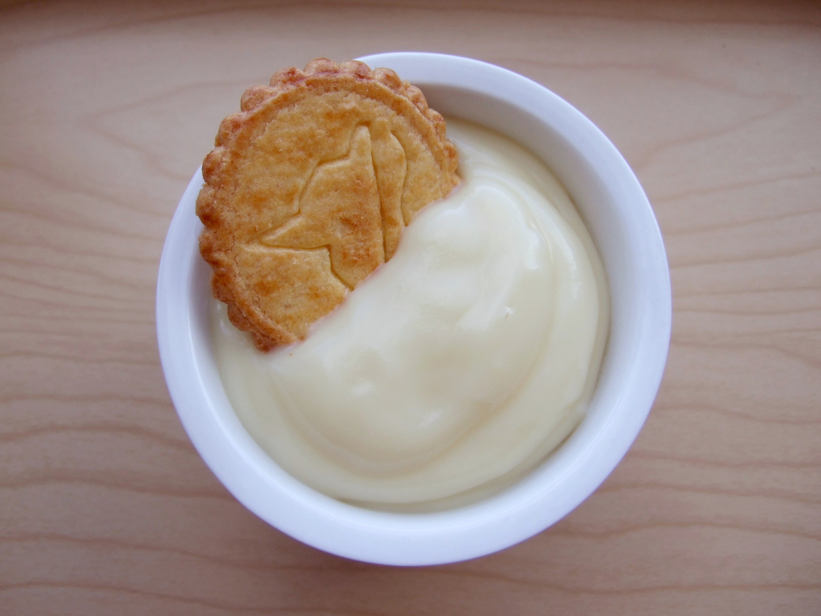 For some odd reason, I felt like making vanilla pudding yesterday. Not the kind from the box - I wanted to make it from scratch, with milk, eggs, sugar and vanilla. Here's the resulting concoction, with a lovely butter cookie from Whole Foods thrown in for good measure. Believe me, it was worth the effort! (Here's the recipe, in case anyone's interested: )